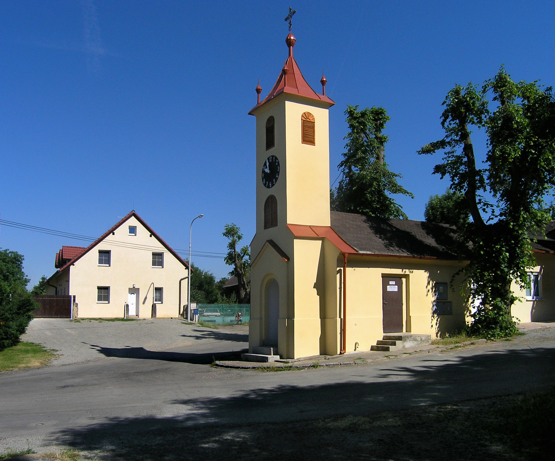 Bell tower in Hrdlořezy, Czech Republic